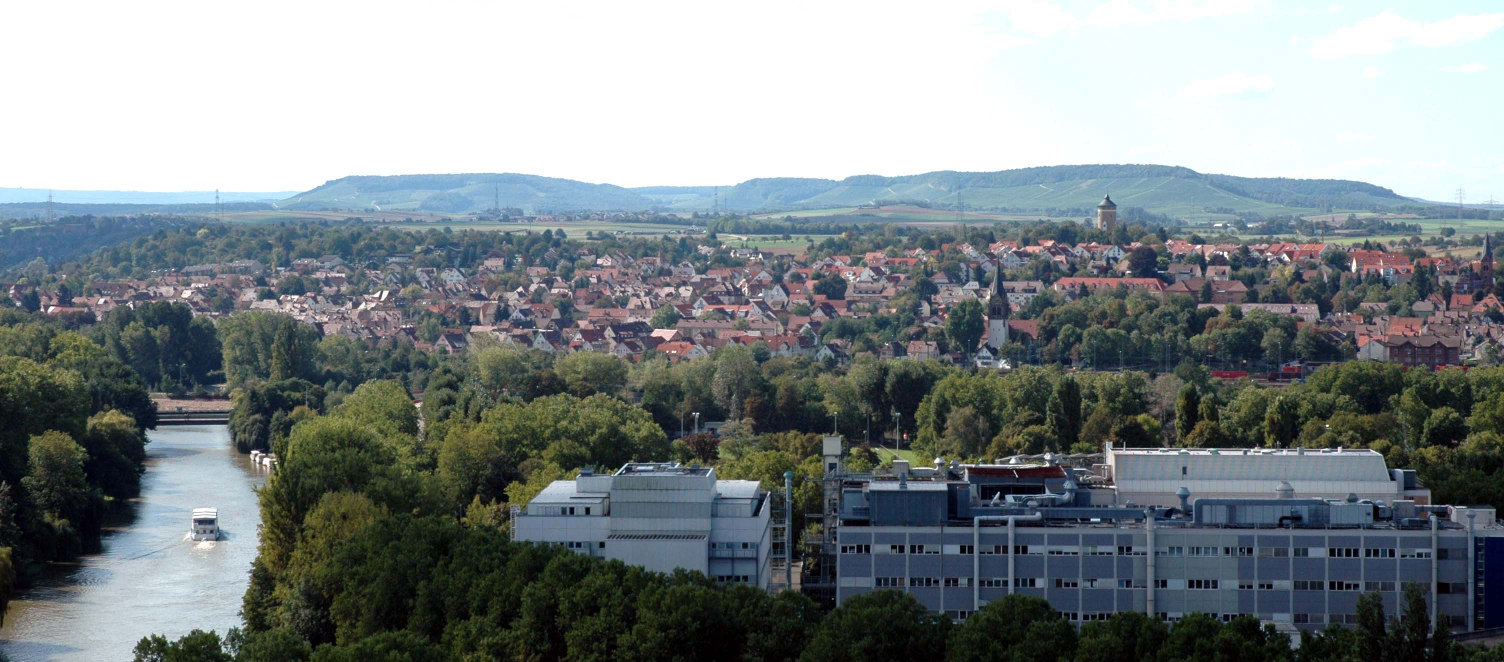 Heilbronn-Böckingen as seen from the Rosenberg high rise